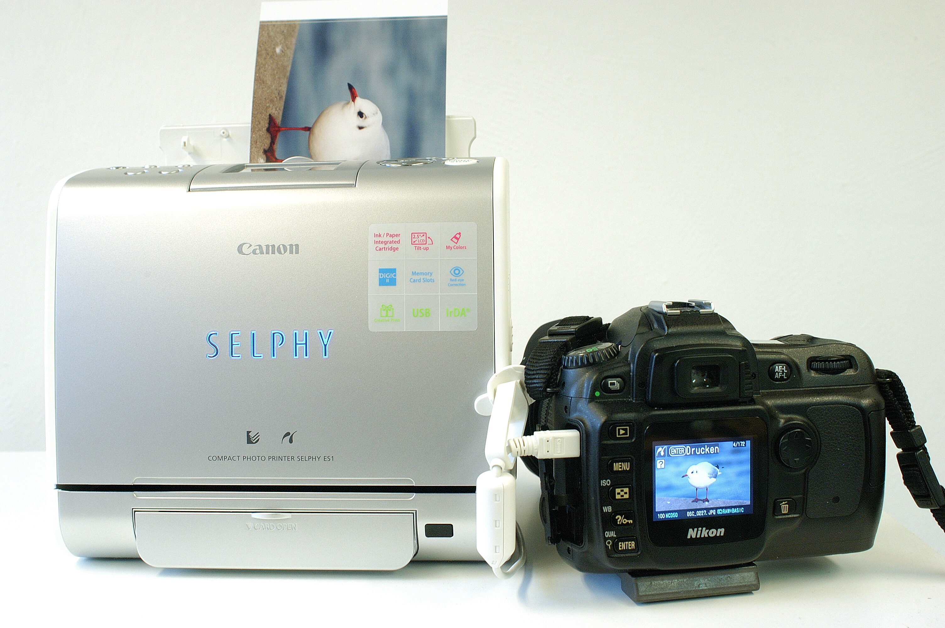 Compact photo printer Canon Selphy ES1 printing photos from a Nikon D50 via PictBridge